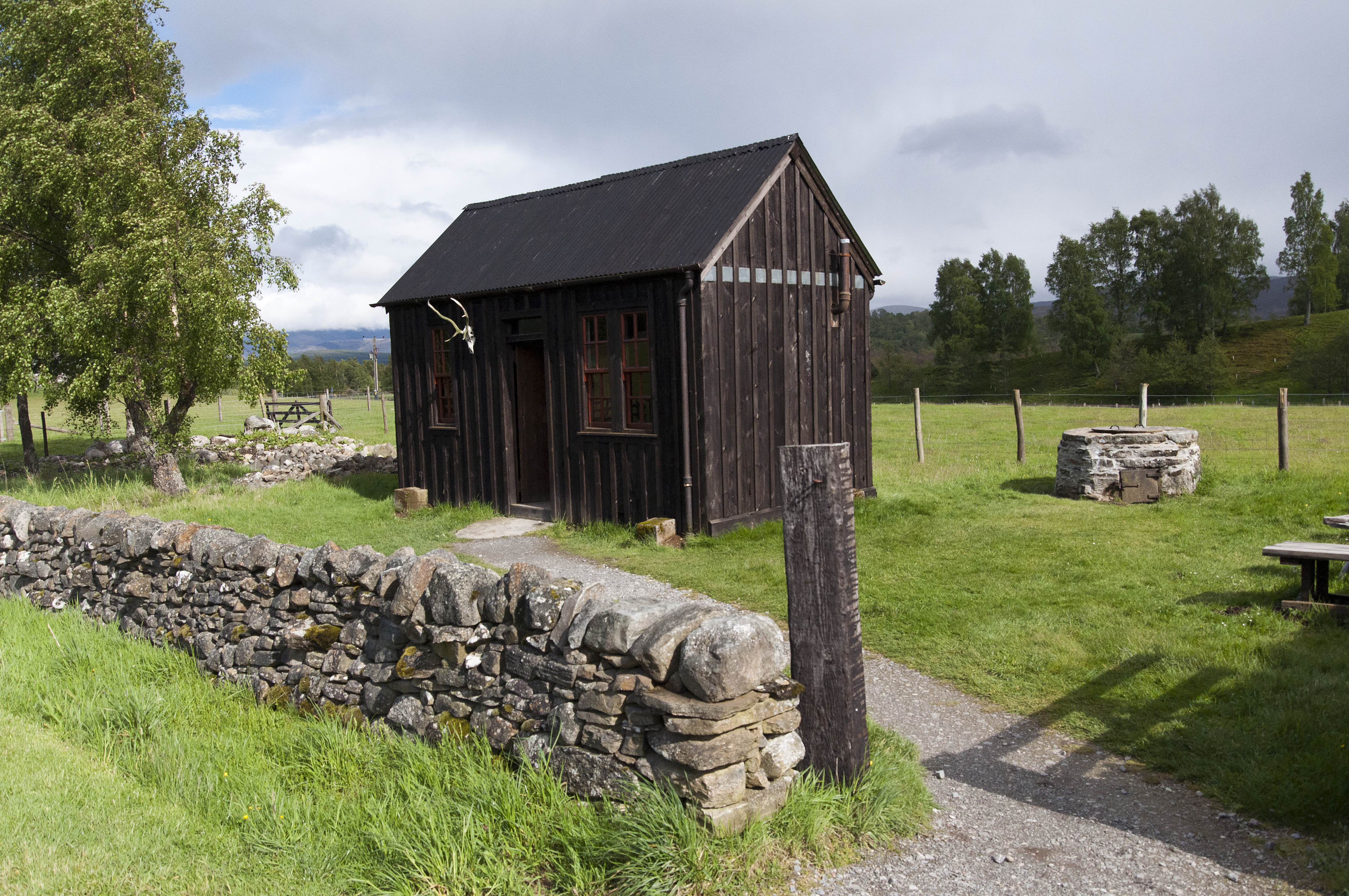 Shepherd's Bothy at the Highland Folk Museum, Newtonmore, Scotland